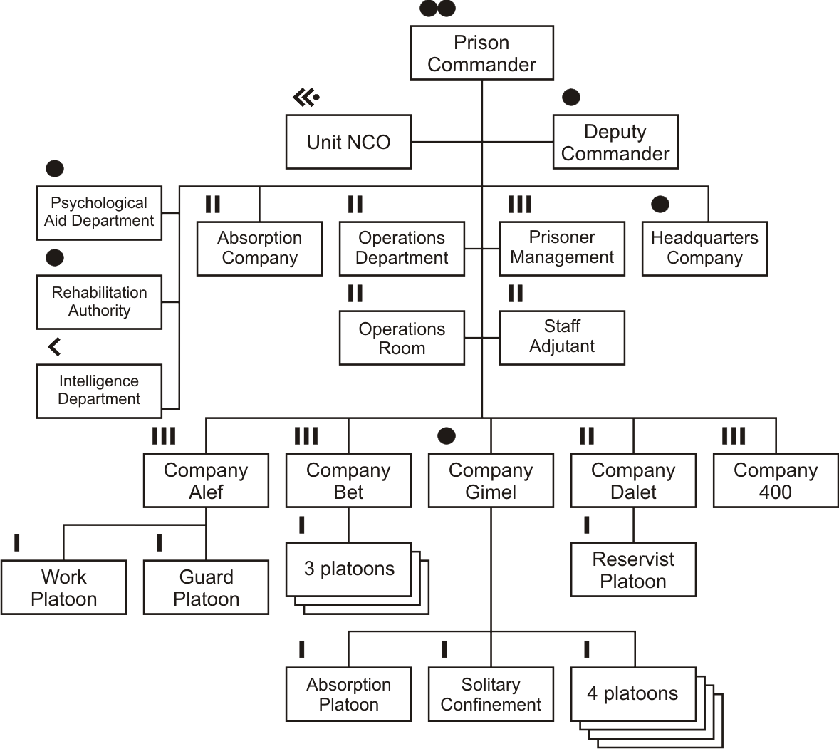 The organizational structure of Prison Four.